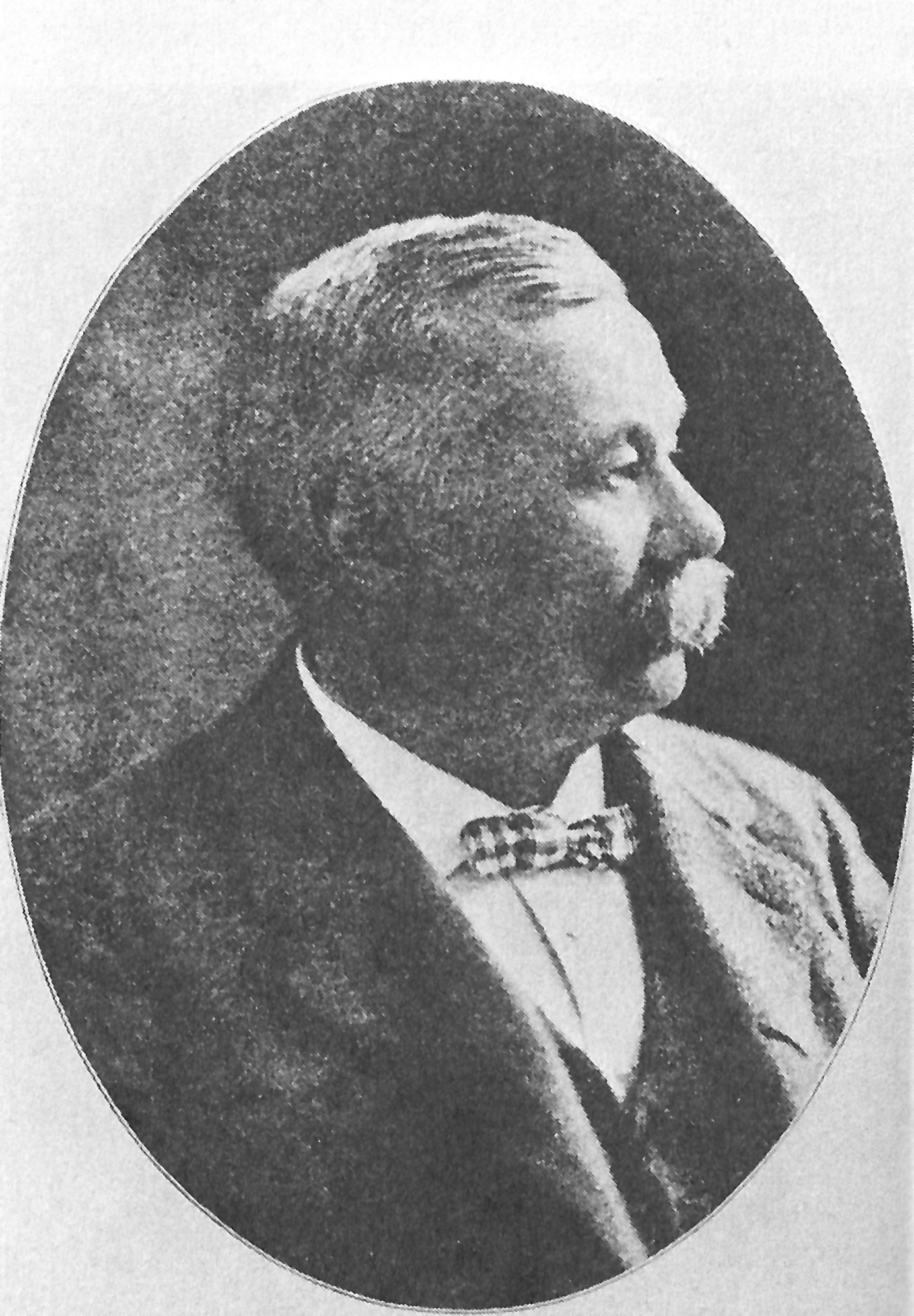 Portrait of George Washington Weidler